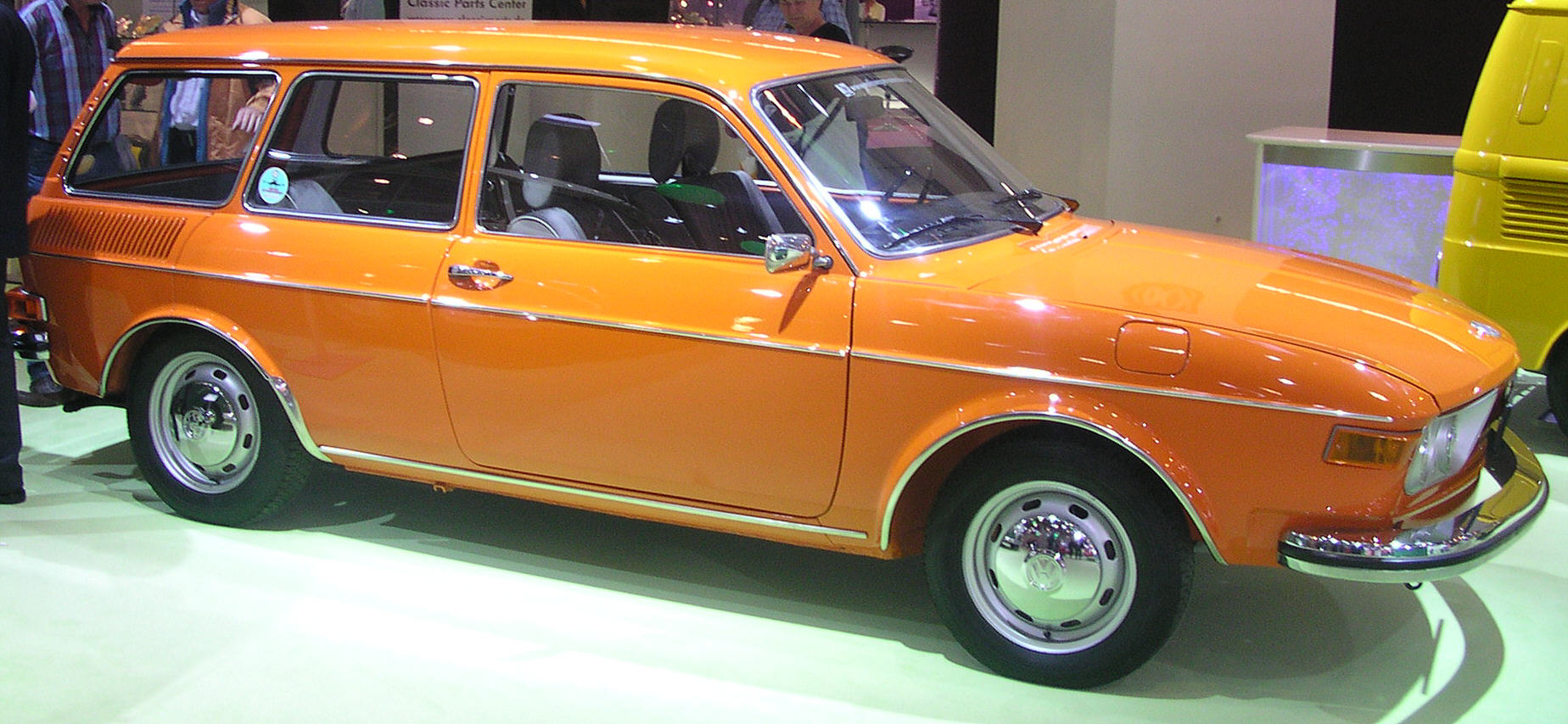 Essen Techno-Classica 2007, VW Variant 412